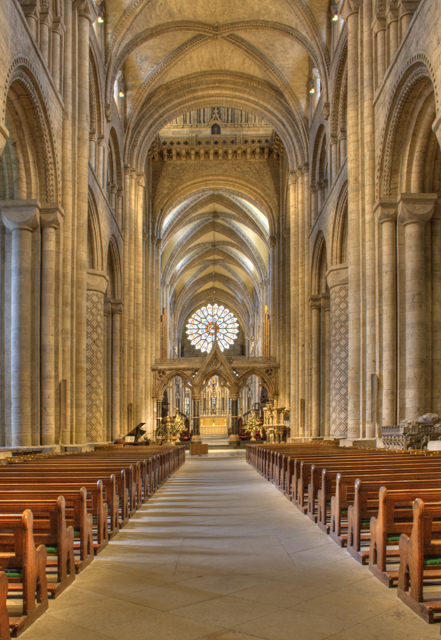 Durham Cathedral The nave in Durham cathedral.